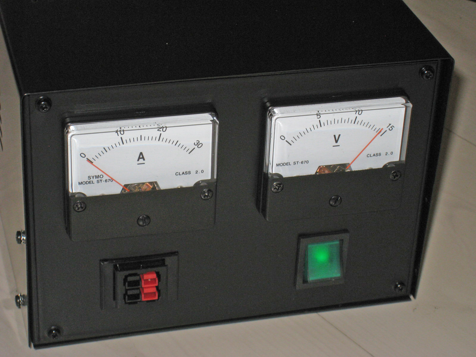 12 V DC power supply, Voltcraft FSP-11330, modified with Anderson Powerpole plugs and new instruments